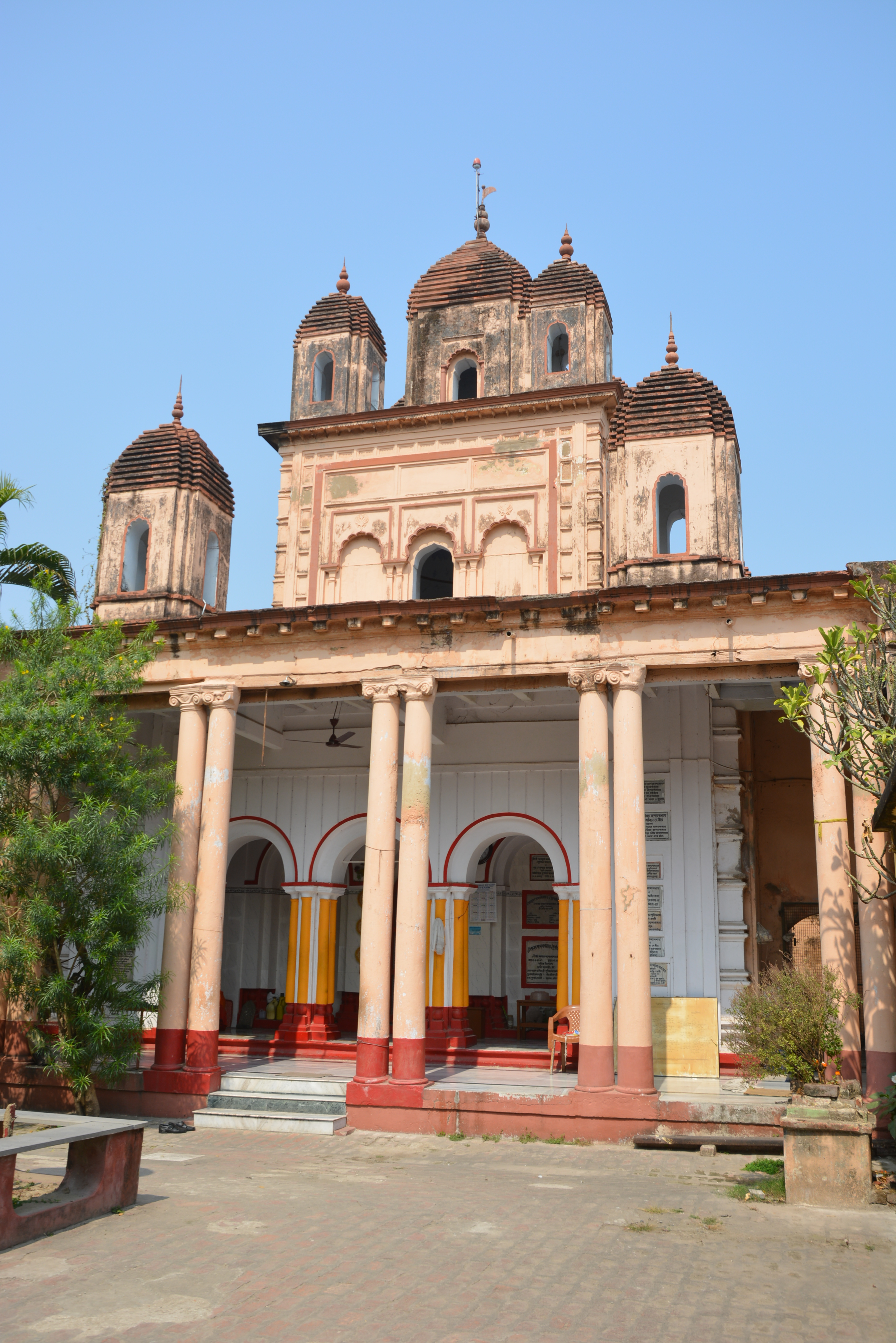 The "nabaratna" or nine pinnacled temple at Bhadreswar is dedicated to Goddess Annapurna.